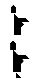 Two monks tangram paradox by H.Dudeney